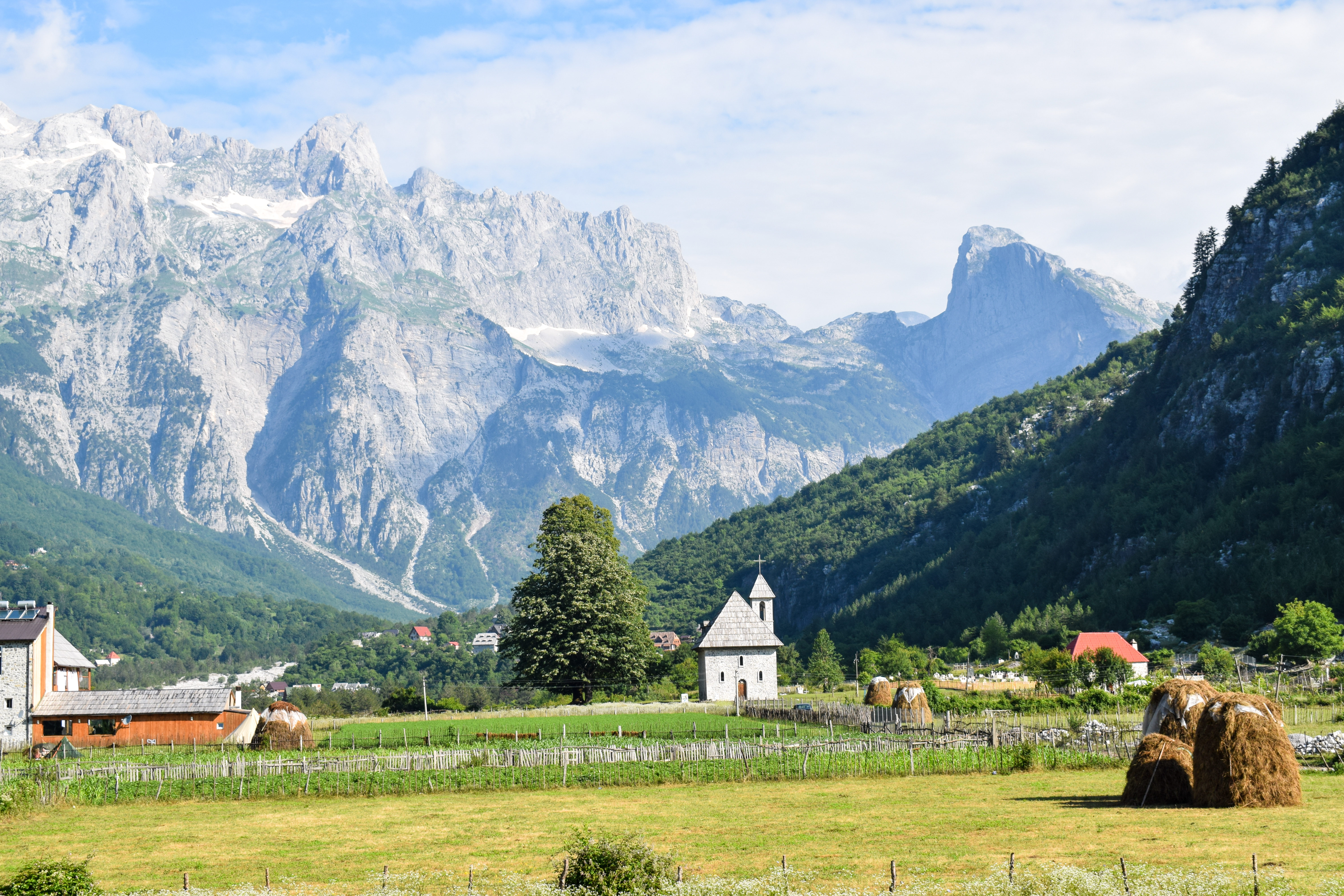 Church of Theth